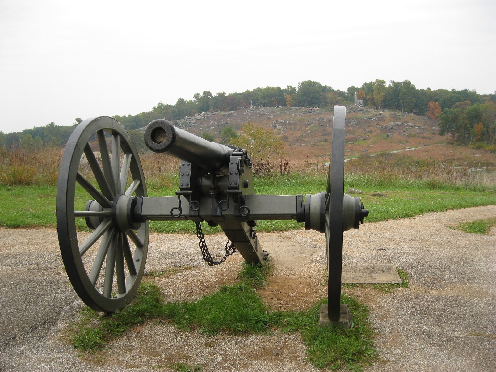 Photo shows a 10-pounder Parrott rifled gun with Little Round Top in the background. The location is on Sickles Avenue near Devil's Den at Gettysburg National Military Park, Gettysburg, PA. View is toward the east.